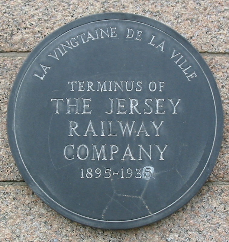 Jersey